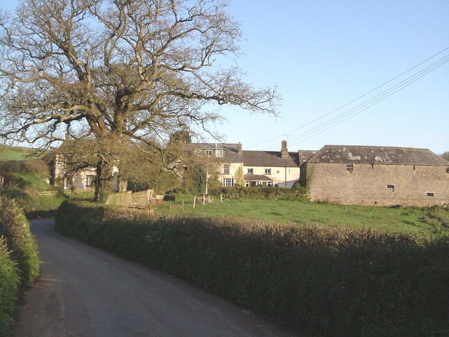 Middle Washbourne farm. Seen from the bridge over the river Wash.